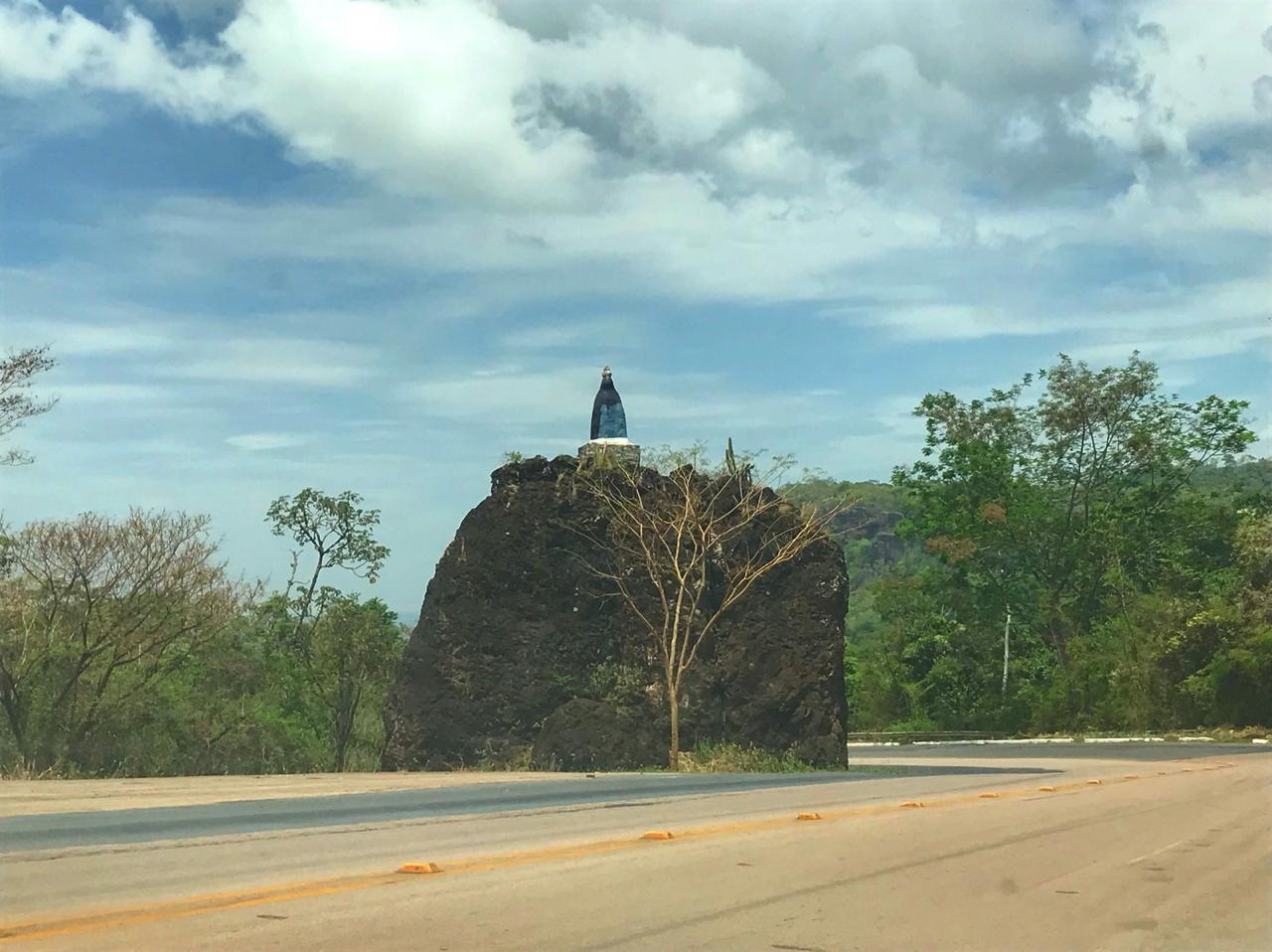 Tangará da Serra